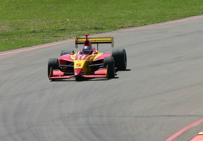 Arie Luyendyk, Jr. driving in the Infiniti Pro Series at St. Petersburg in 2005